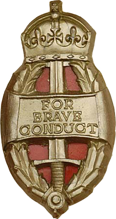 KCB badge